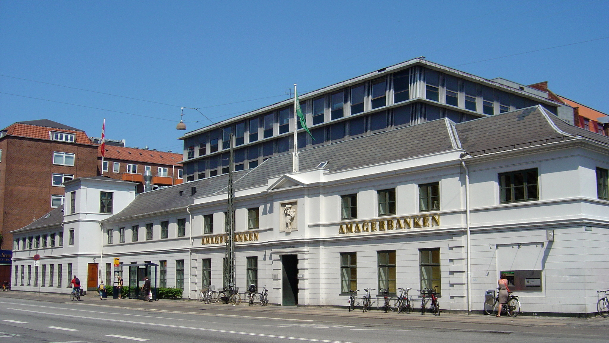 Amagerbanken - Bankafdelingen Hovedkontoret department on Amager, Copenhagen. Seen from southwest side, next to Amagerbrogade.